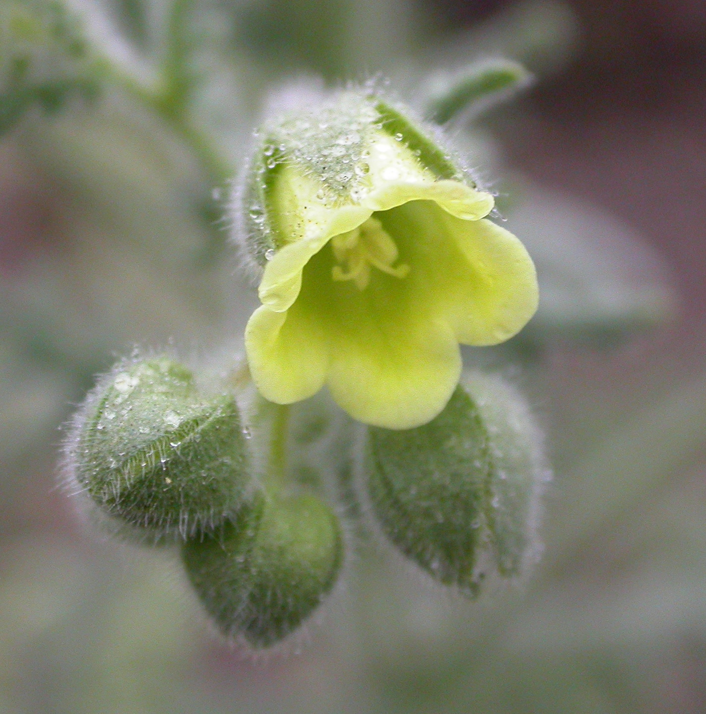 San Gabriel Mts. north of Rancho Cucamonga, CA